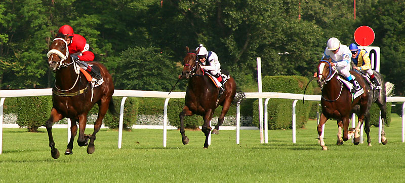 Overdose - Piotr Krowicki, Cena Ministerstva podohopodárstva Slovenskej